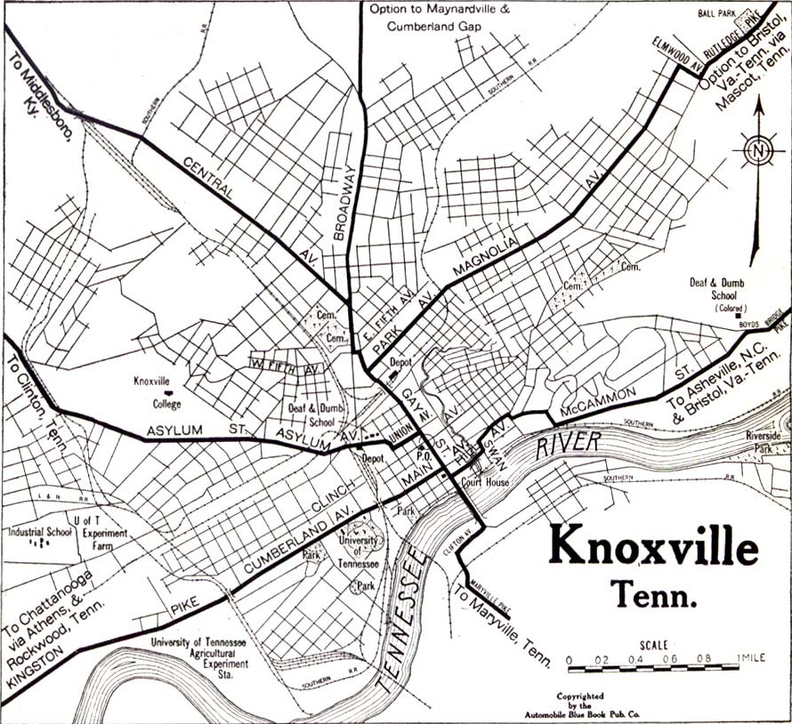 Map of Knoxville, Tennessee, USA, published in 1919.